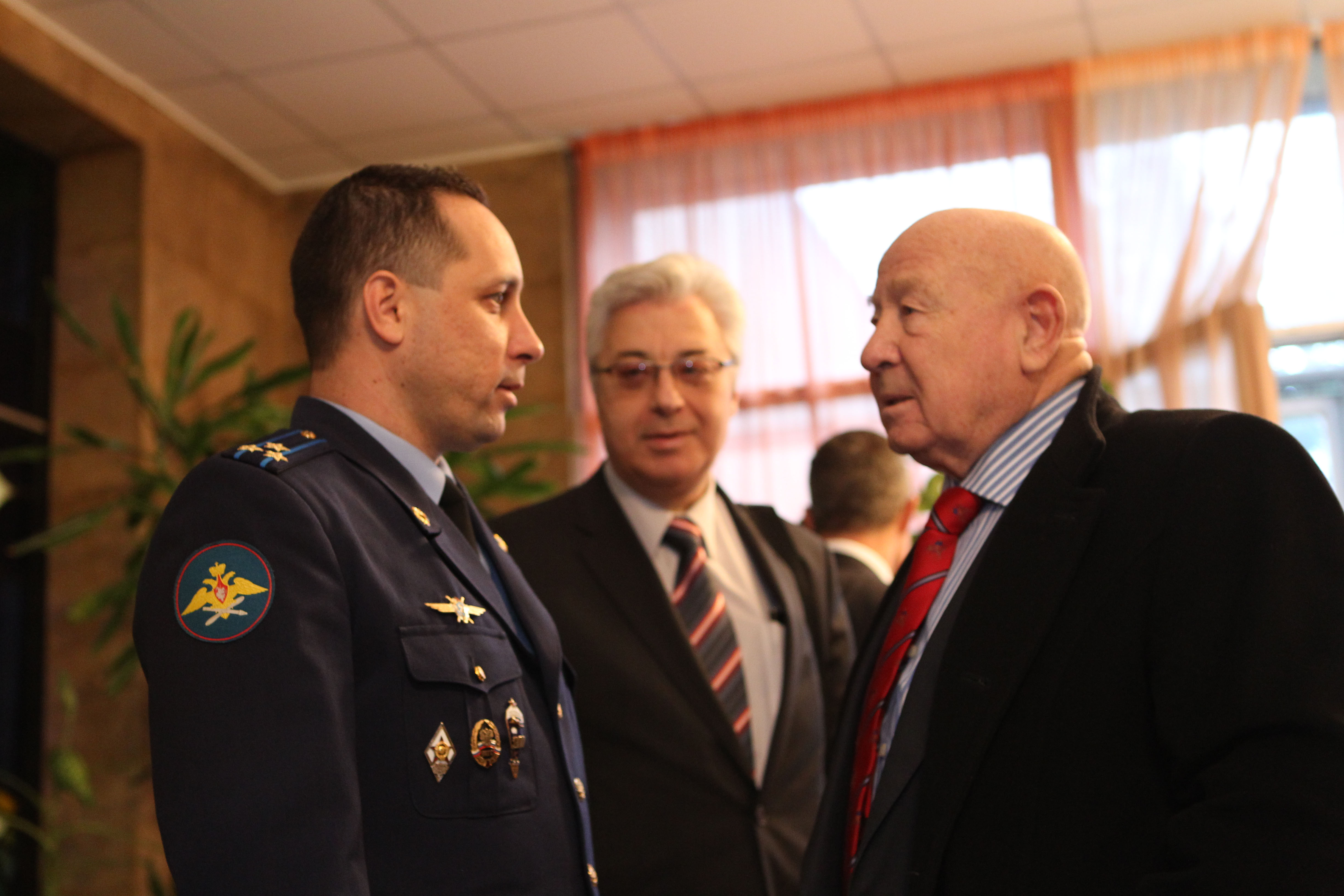 At the Gagarin Cosmonaut Training Center in Star City, Russia, Expedition 29/30 Soyuz commander Anton Shkaplerov (left) shares a moment with legendary Russian cosmonaut Alexei Leonov (right), the first human to walk in space. The reunion came during the departure ceremony Oct. 31, 2011 for Shkaplerov, NASA astronaut Dan Burbank and Russian cosmonaut Anatoly Ivanishin as they left for their launch site in Baikonur, Kazakhstan. The trio will launch Nov. 14 from Baikonur on a Soyuz TMA-22 spacecraft for the International Space Station. Just prior to the Nov. 21 farewell of the current Expedition 29 crew onboard the orbital outpost, Burbank will assume the position of Expedition 30 commander.